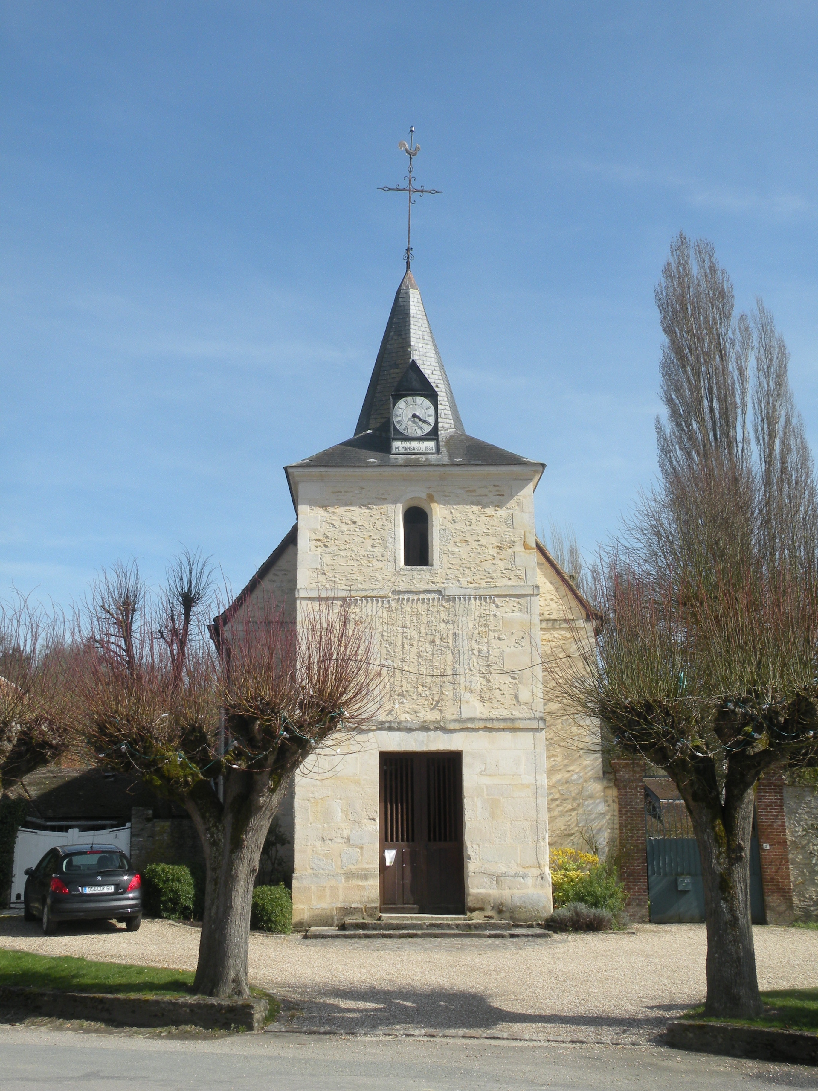 Saint-Sulpice Church in Chambors, France